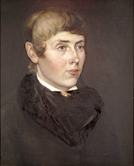 Depicted person: Mary McHenry Keith (wife of William Keith)